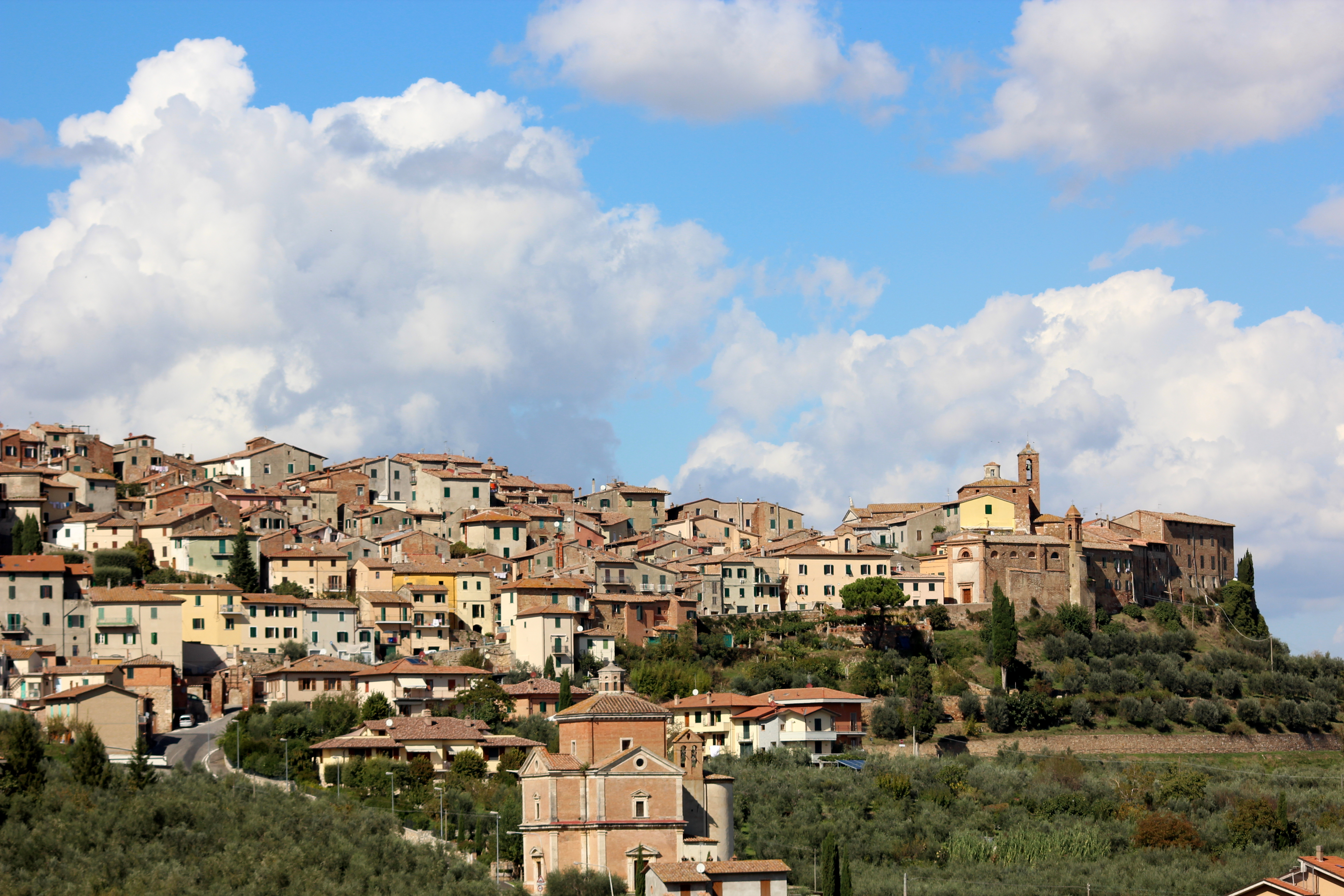 Panorama of Chianciano (Old town of Chianciano Terme, also Chianciano Paese called), Province of Siena, Tuscany, Italy